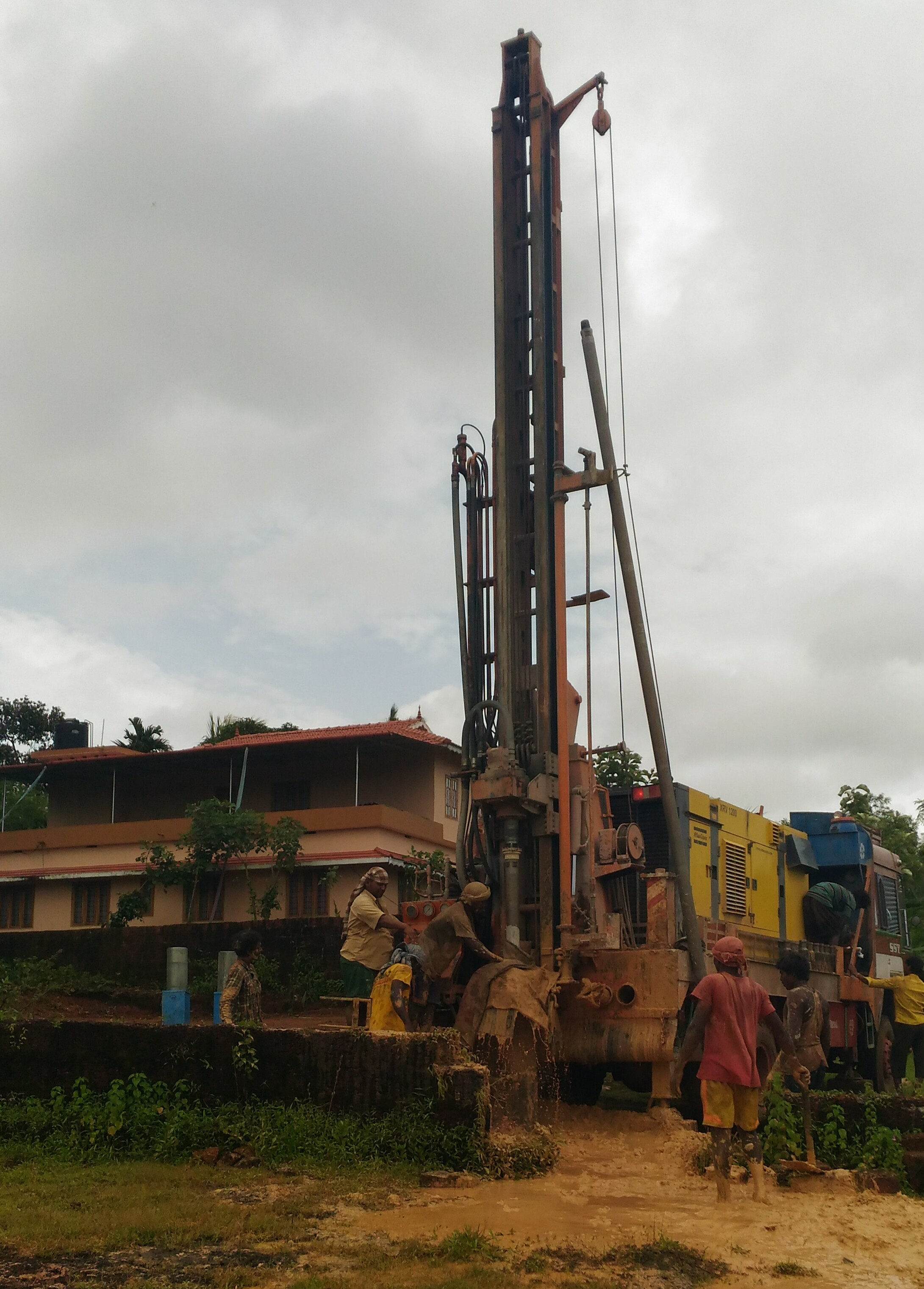 Borewell digging A borehole is a narrow shaft bored in the ground, either vertically or horizontally. A borehole may be constructed for many different purposes, including the extraction of water, other liquids (such as petroleum) or gases (such as natural gas), as part of a geotechnical investigation, environmental site assessment, mineral exploration, temperature measurement, as a pilot hole for installing piers or underground utilities, for geothermal installations, or for underground storage of unwanted substances, e.g. in carbon capture and storage.